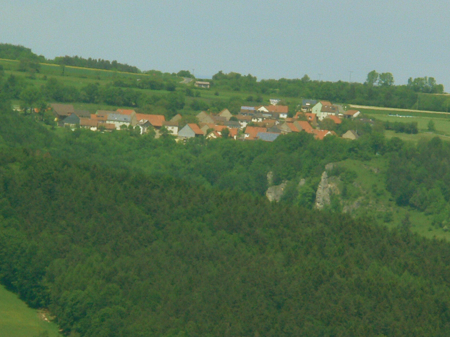 views of Scheßlitz near Bamberg, Germany